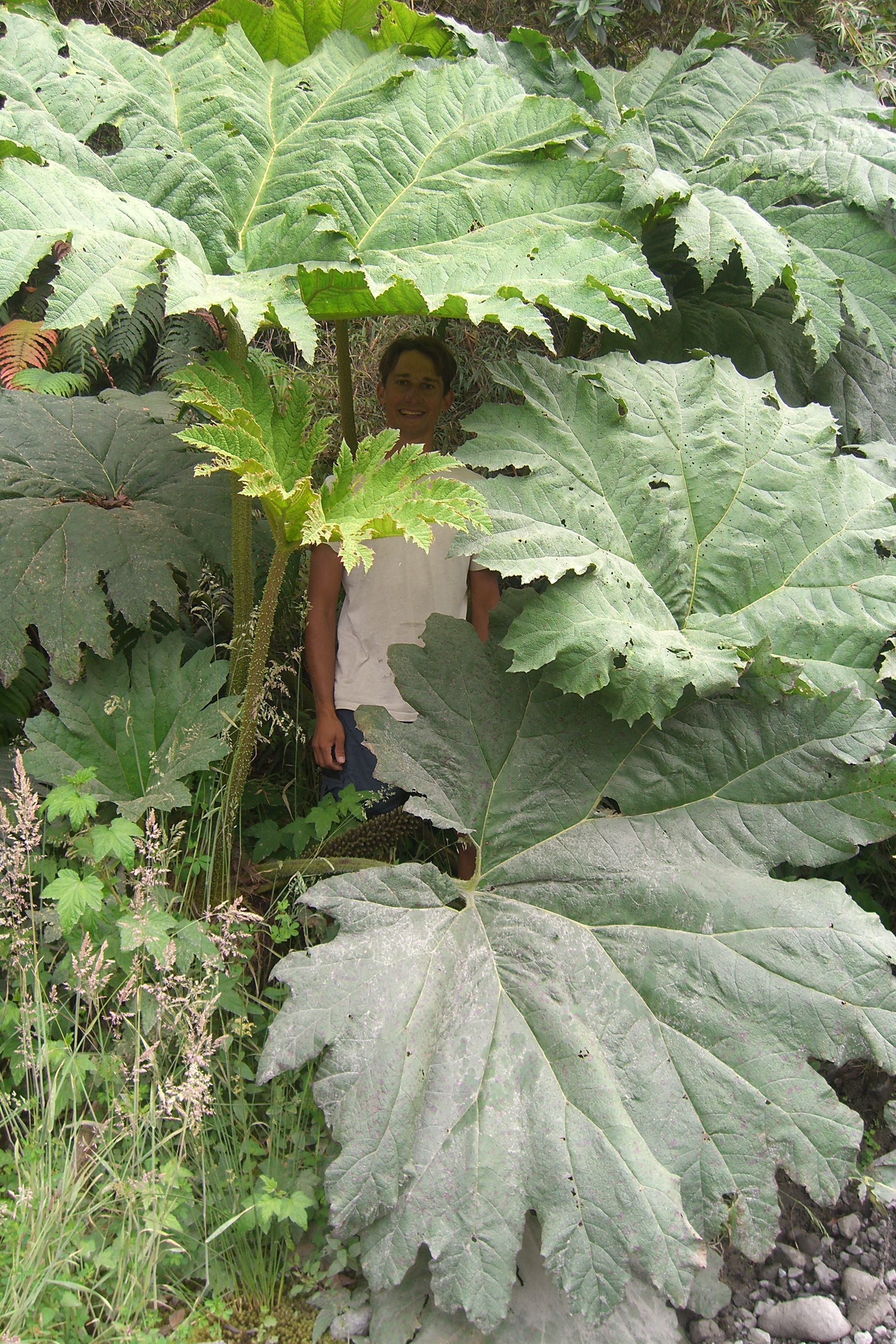 Martin took this photo of me standing tip-toe under a Gunnera tinctoria to give some appreciation of the massive size of these plants!